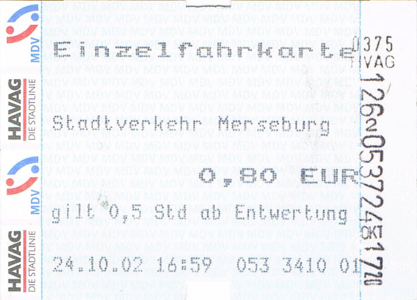 Bus ticket of the middle german transport association in October 2010, used in Merseburg